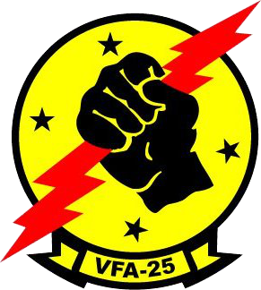 Insignia of the U.S. Navy Strike Fighter Squadron 25 (VFA-25) "Fist of the Fleet".